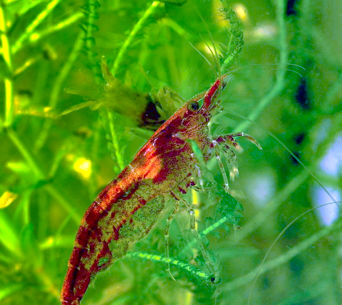 Fire Red, Red Cherry, Neocaridina heteropoda var. red